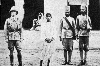 Bengali revolutionary Khudiram Bose under guard. He was executed in 1908 for the murder of two Englishwomen with a homemade bomb, the first assassination carried out by Bengali revolutionaries. His intended target was an unpopular district magistrate.